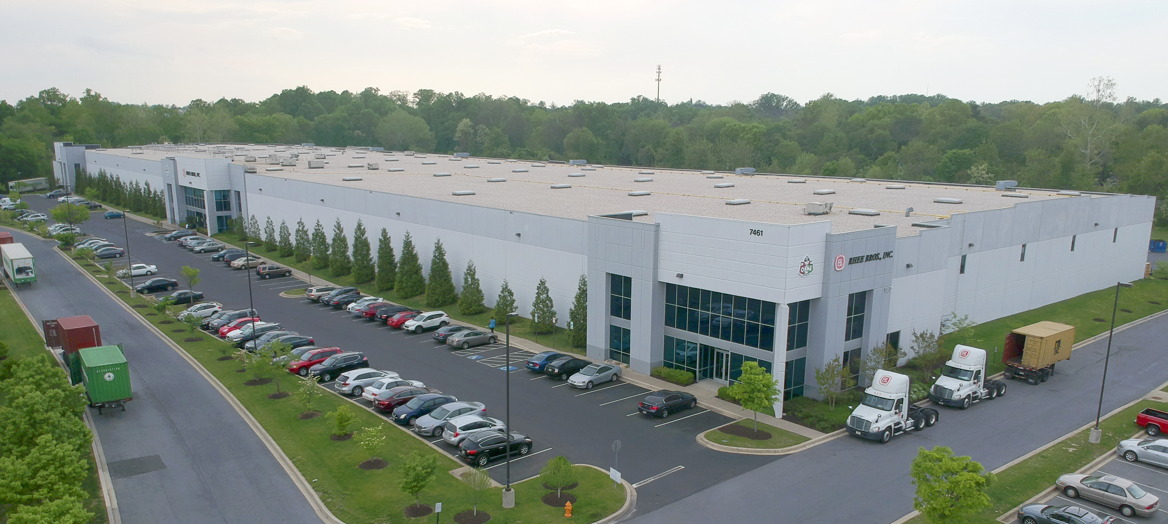 First Lady Yumi Hogan And Secretary Pete Rahn Tour Rhee Brothers Asian Food distributors by Bill McAllen at Rhee HQ in Hanover - 7461 Coca Cola Dr, Hanover, MD 21076